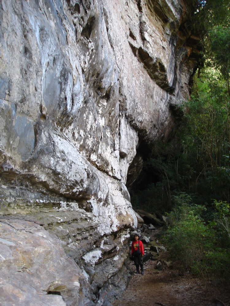 Photo of Nature Reserve Taipas do Rio do Couro